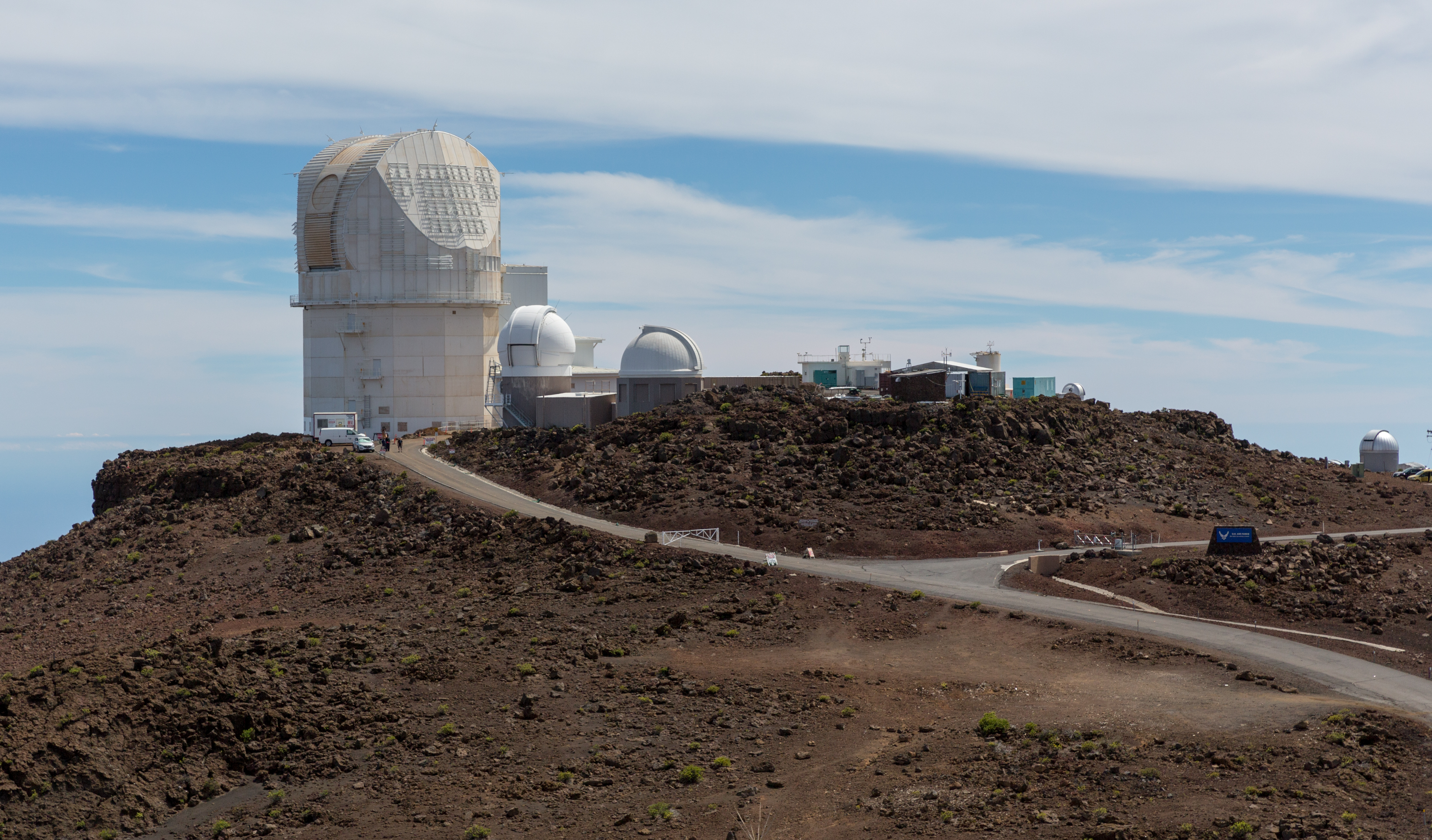 Haleakala Observatory in the summit area of Haleakalā volcano